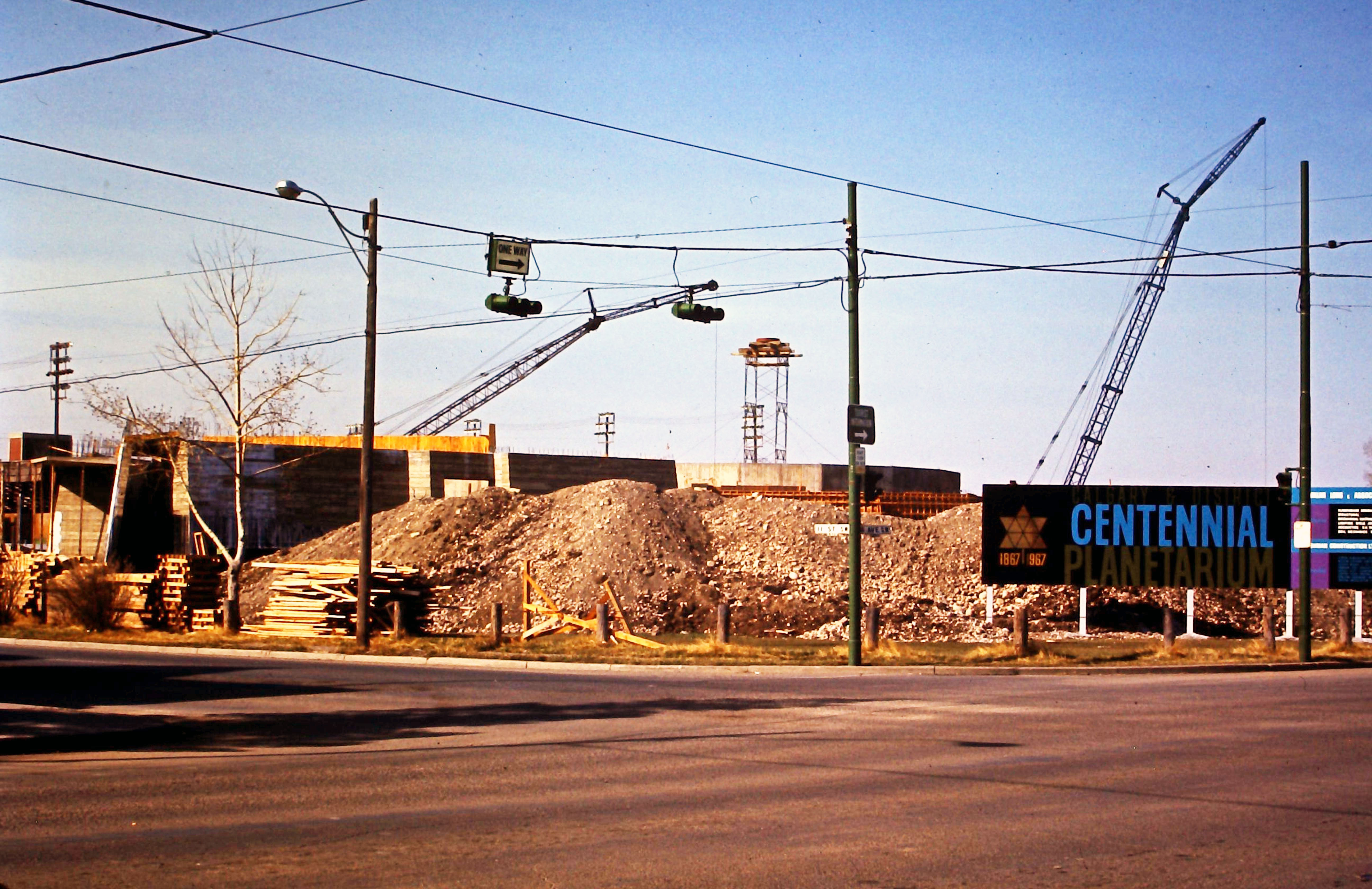 Calgary Centennial Planetarium 1967 09